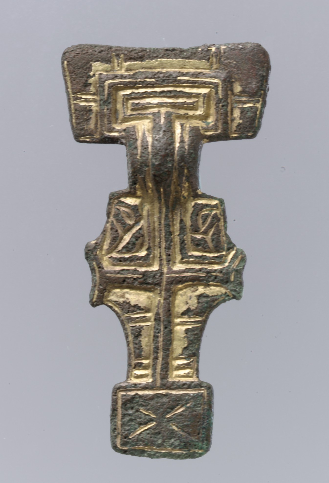 Anglo-Saxon; Brooch; Metalwork-Silver